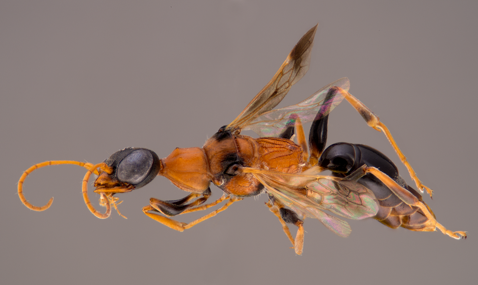 Ampulex dementor female, holotype, in oblique lateral view. Pin digitally removed from image.